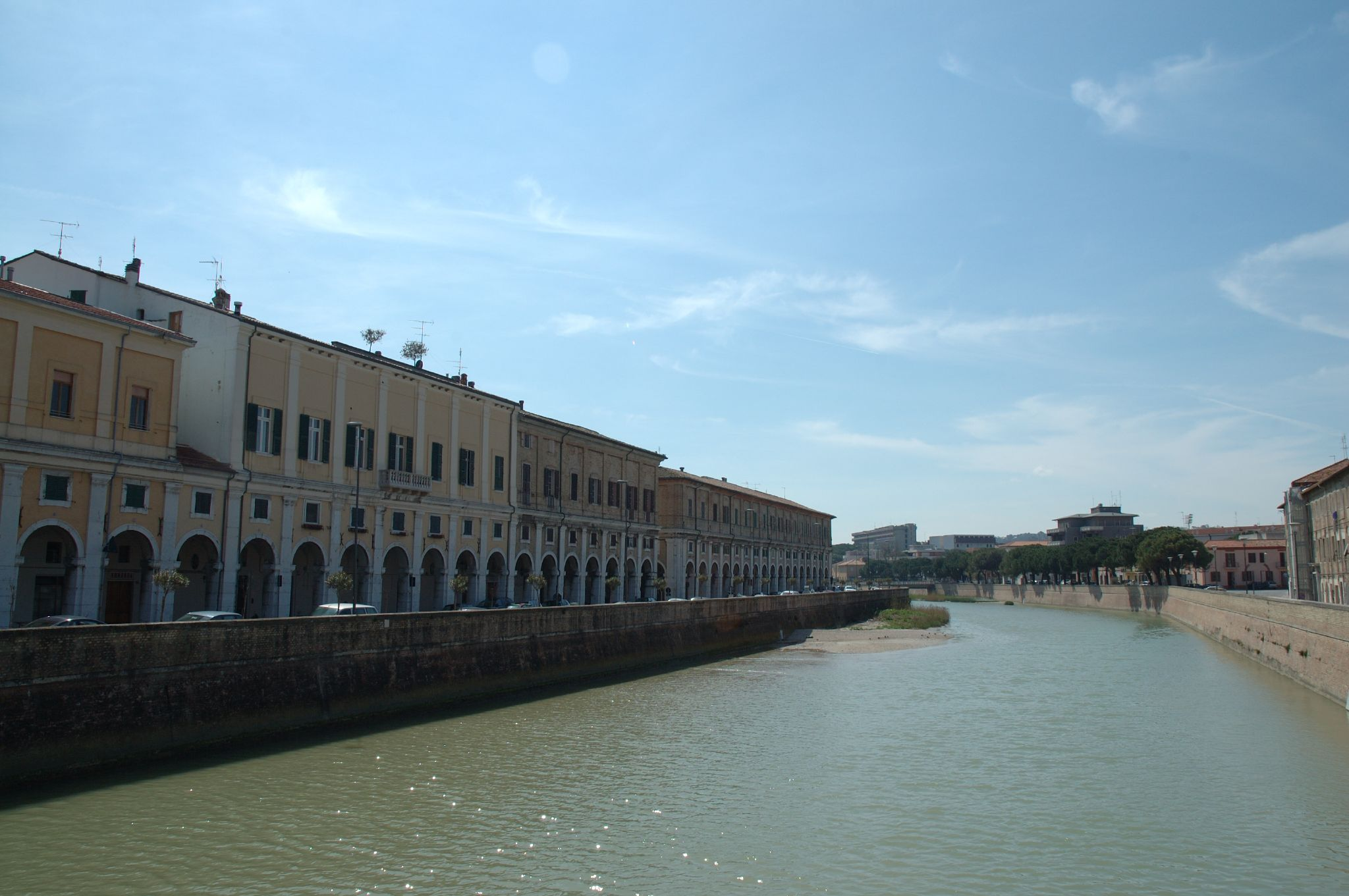 Senigallia, Marche, Italia